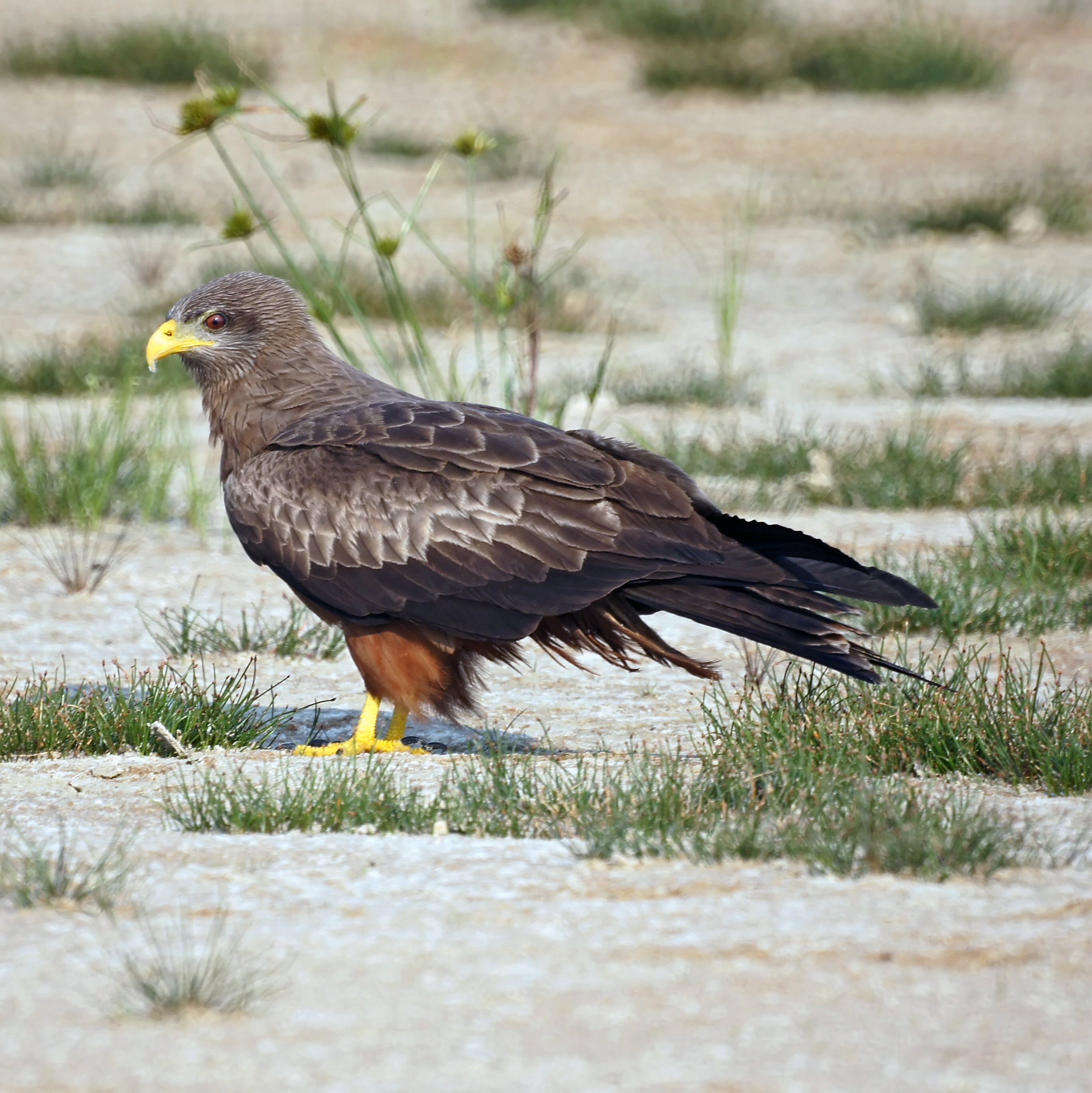 A Yellow-billed Kite in Limpopo, South Africa.